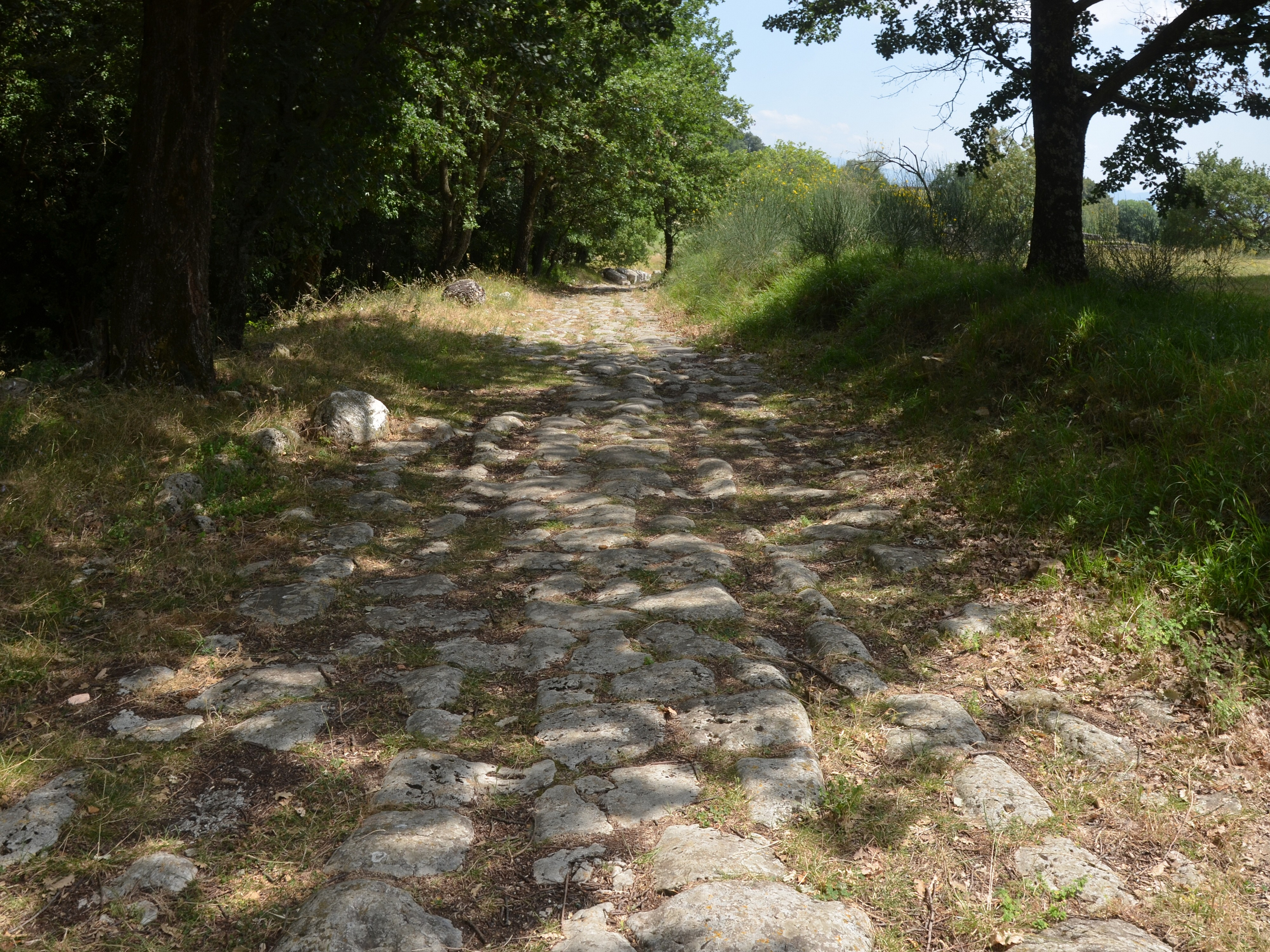 Carsulae, Italy